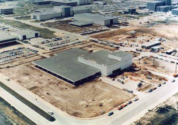 The Lunar Receving Lab shortly after it was built.